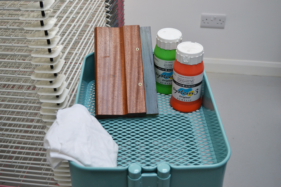 Trolley used in Squeegee & Ink studio containing a wooden squeegee and acrylic ink